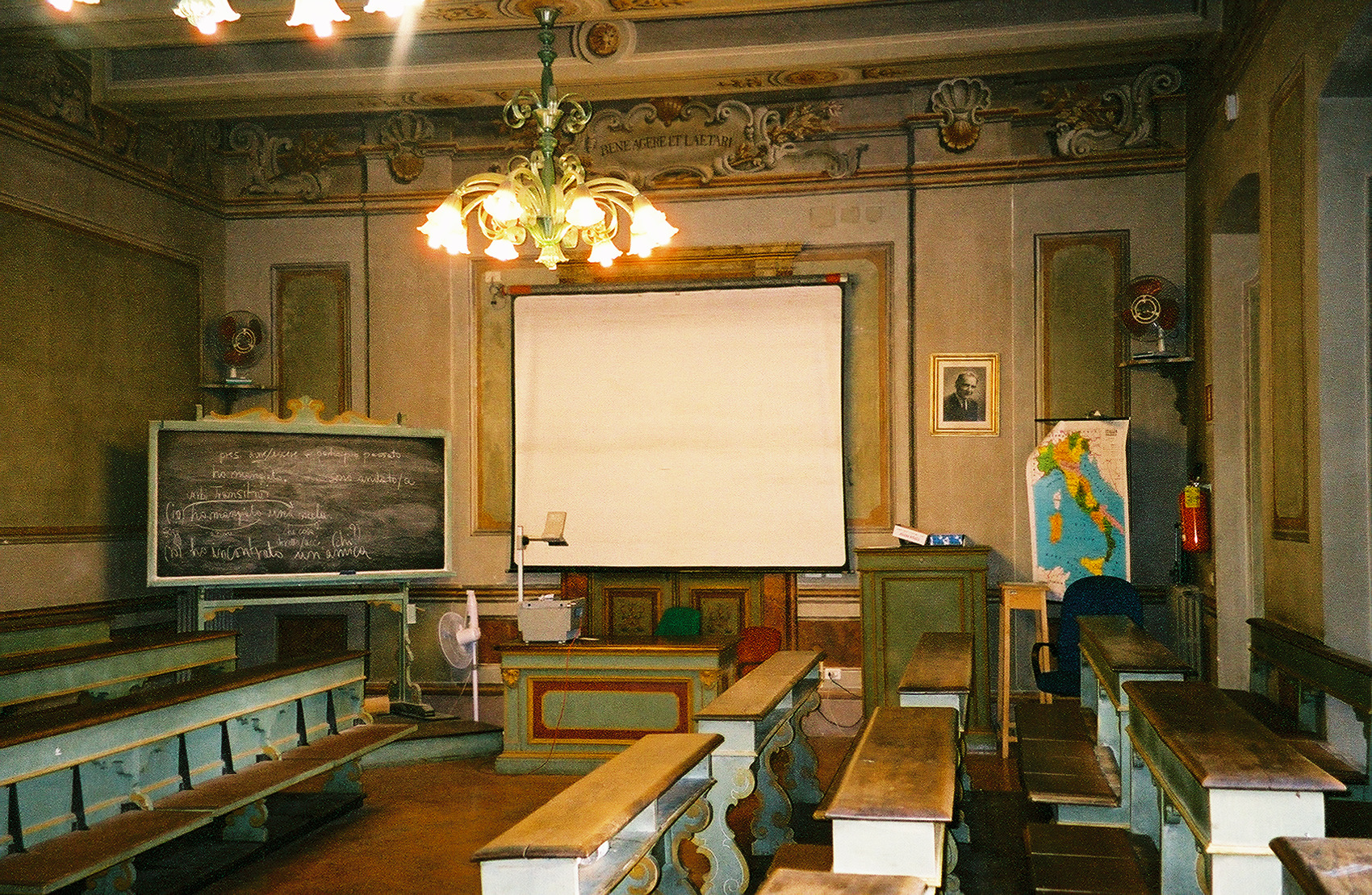 Palazzo Gallenga Stuart, University for Foreigners, Perugia, Italy